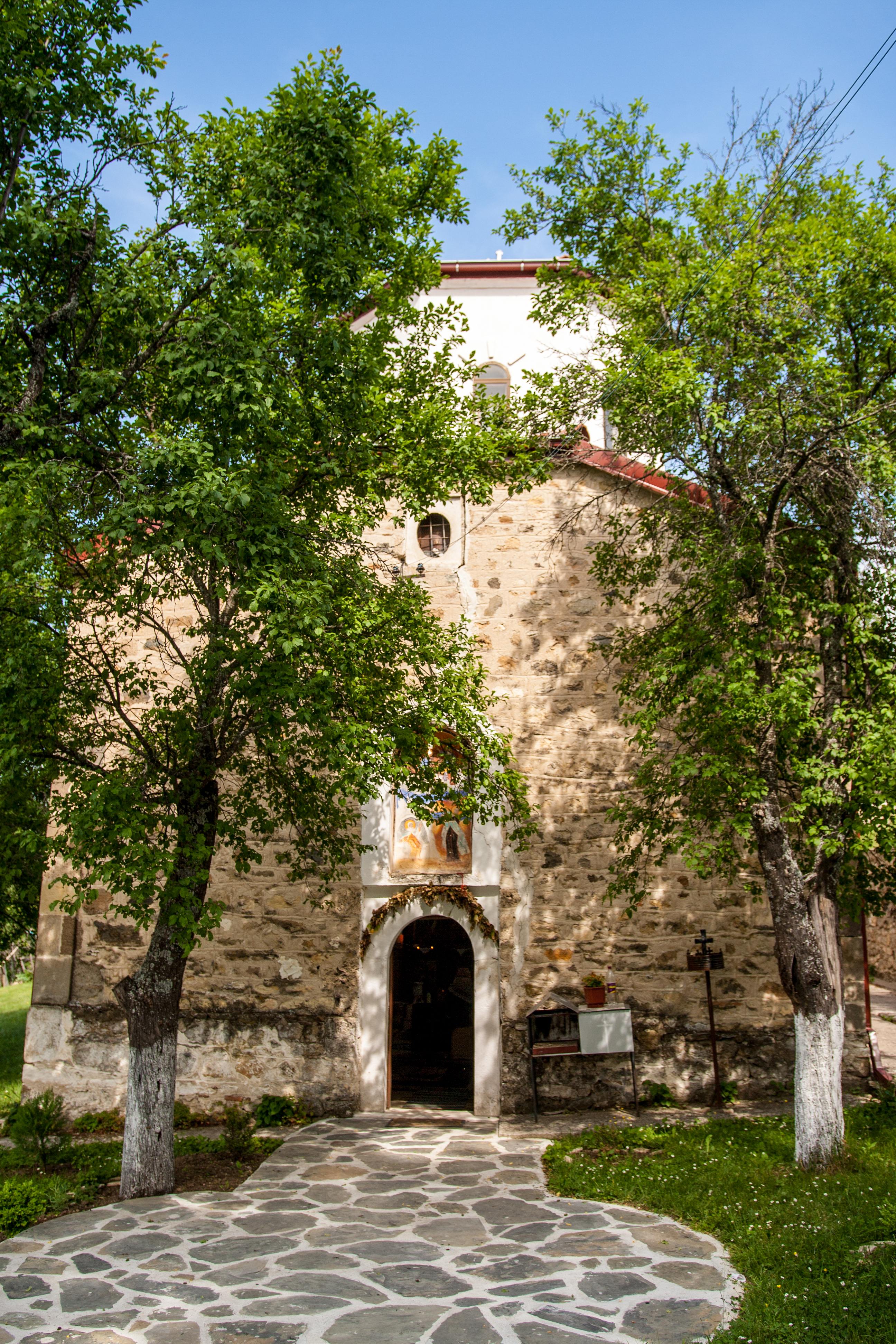 View of the St. Elijah Church, part of the Vitolište Monastery